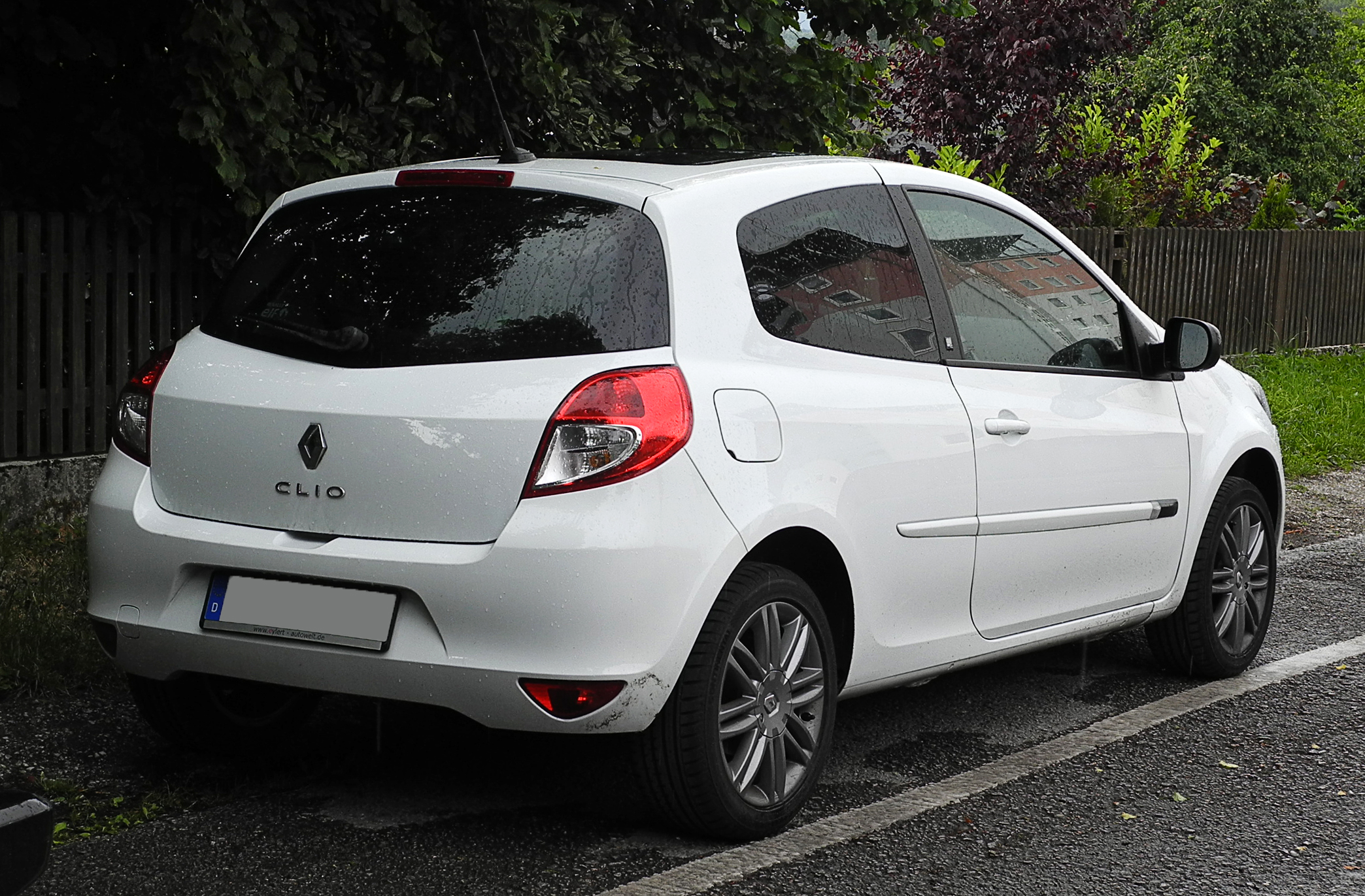 Renault Clio 20th (III, Facelift)